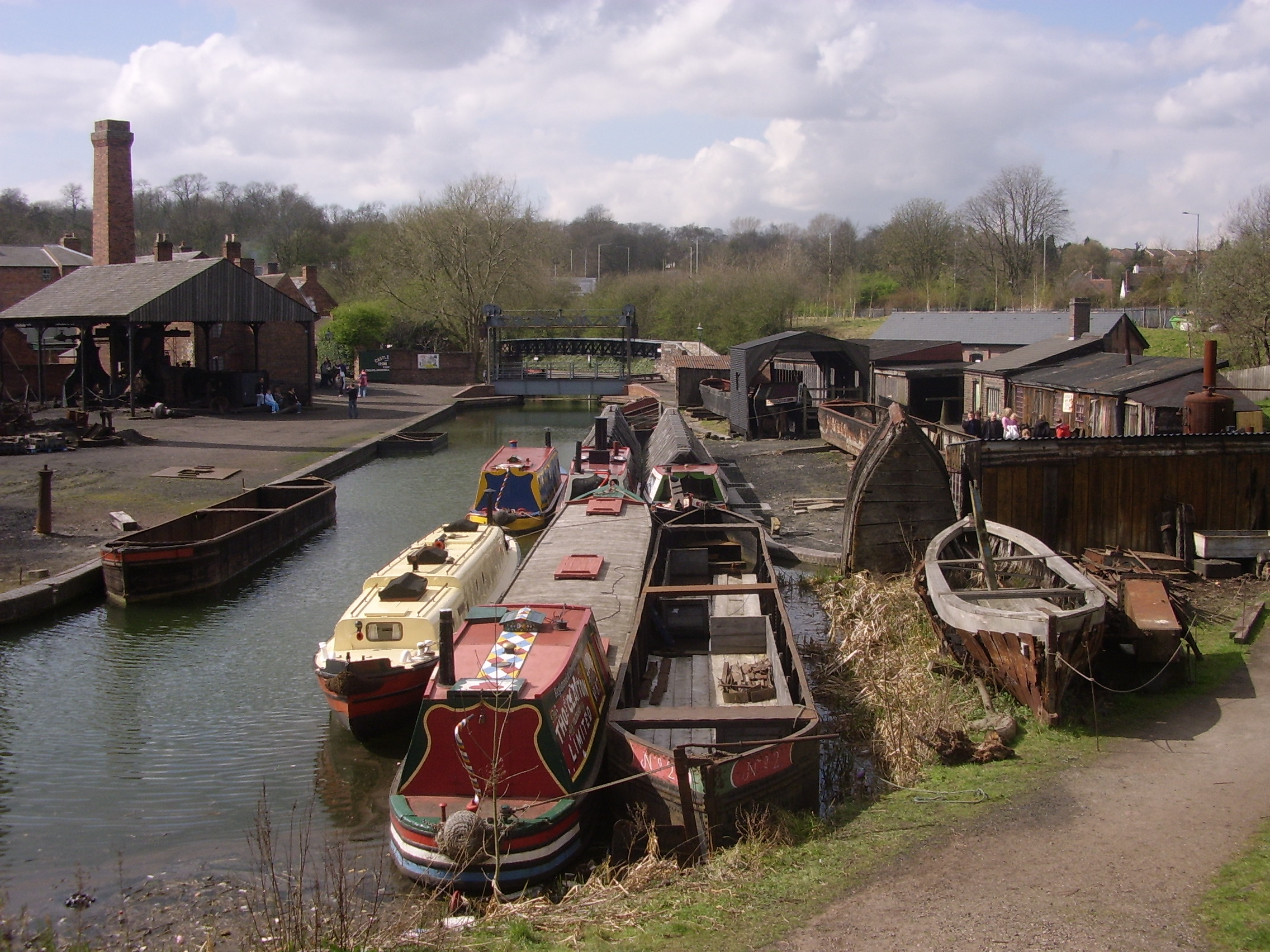 Castle Fields Boat Dock at Black Country Living Museum, Dudley, West Midlands.